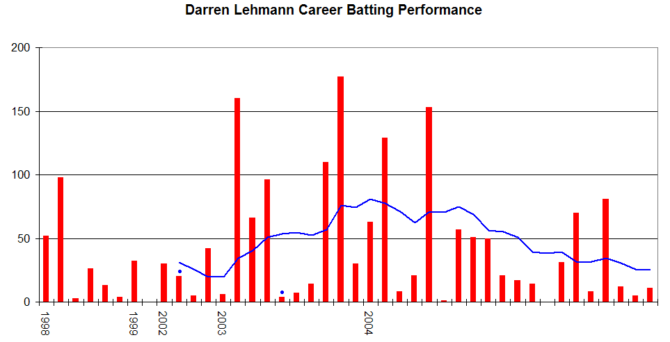 This graph details the Test Match performance of Darren Lehmann. It was created by Raven4x4x. The red bars indicate the player's test match innings, while the blue line shows the average of the ten most recent innings at that point. Note that this average cannot be calculated for the first nine innings. The blue dots indicate innings in which Lehmann finished not-out. This graph was generated with Microsoft Excel 2002, using data from Cricinfo and .au.